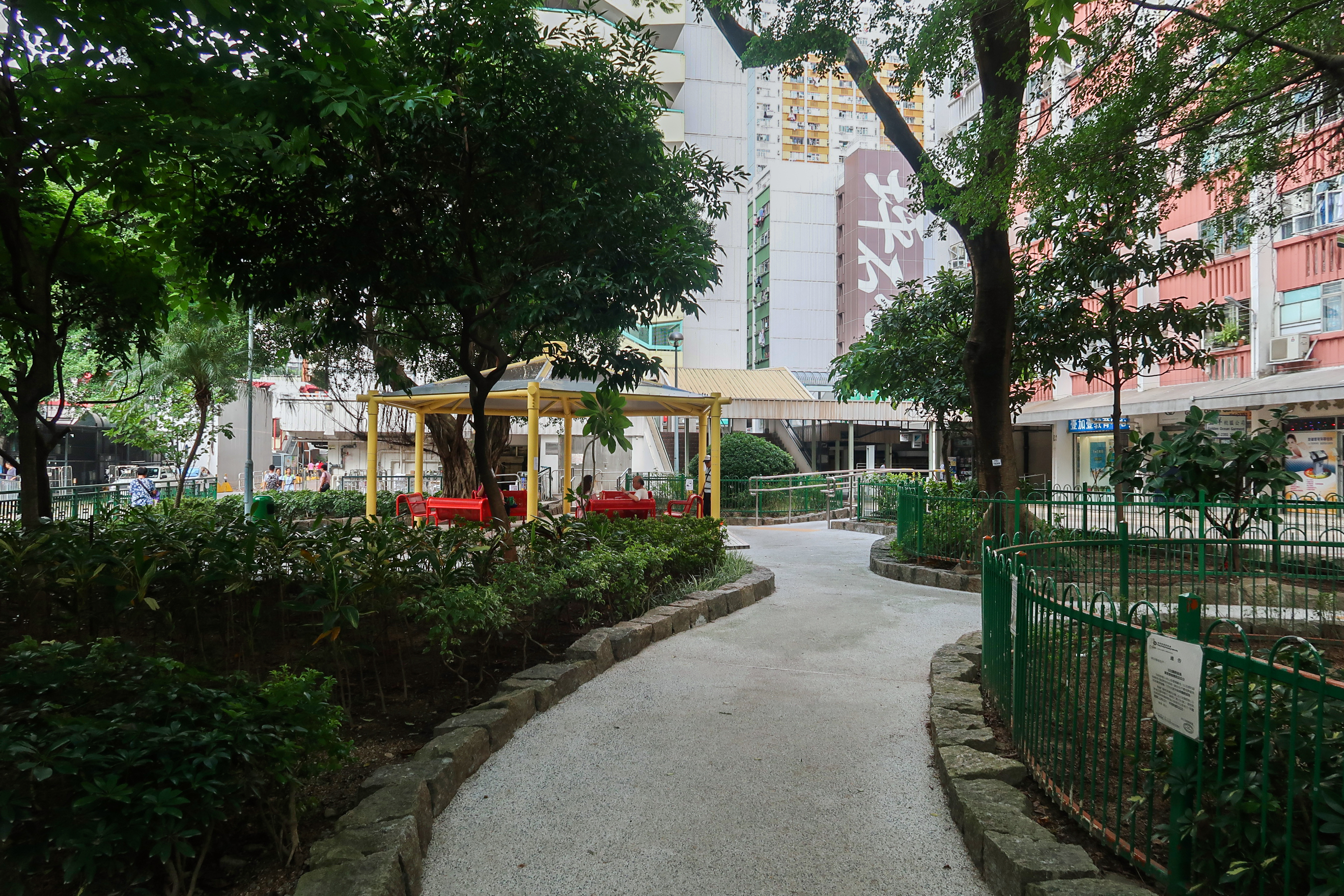 Ping Shek Estate Open space pavilion